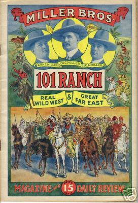 101 Ranch Wild West Show Brochure